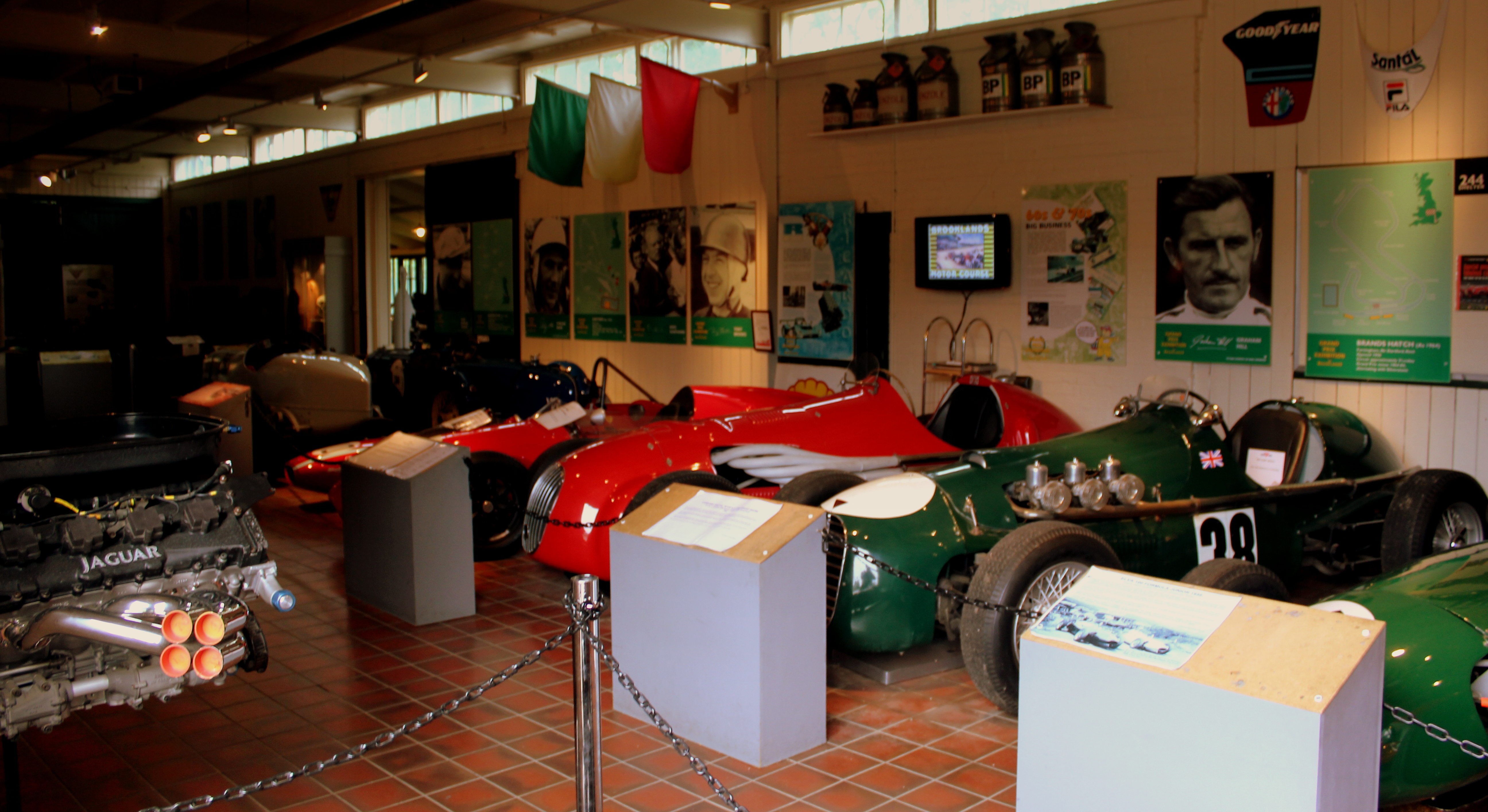 RACING CAR COLLECTION AT THE BROOKLANDS MUSEUM WEYBRIDGE SURREY JUNE 2014